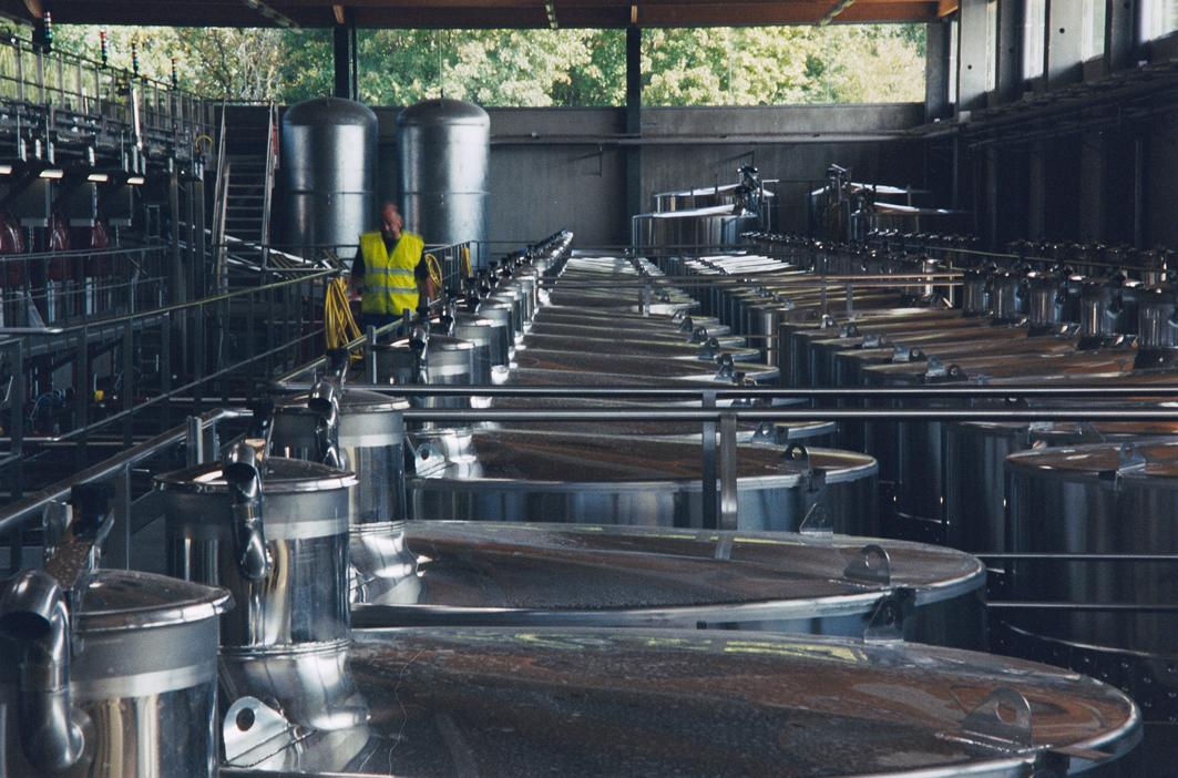 From author "Vintage 2008 at the Möet & Chandon Romont wine pressing center, Champagne, France."